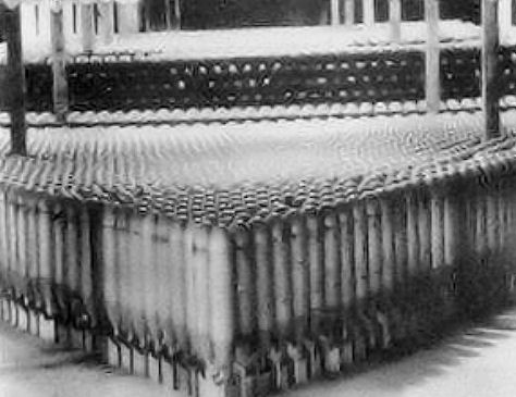 San Angelo Airmy Airfield Concrete Practice Bombs 1943